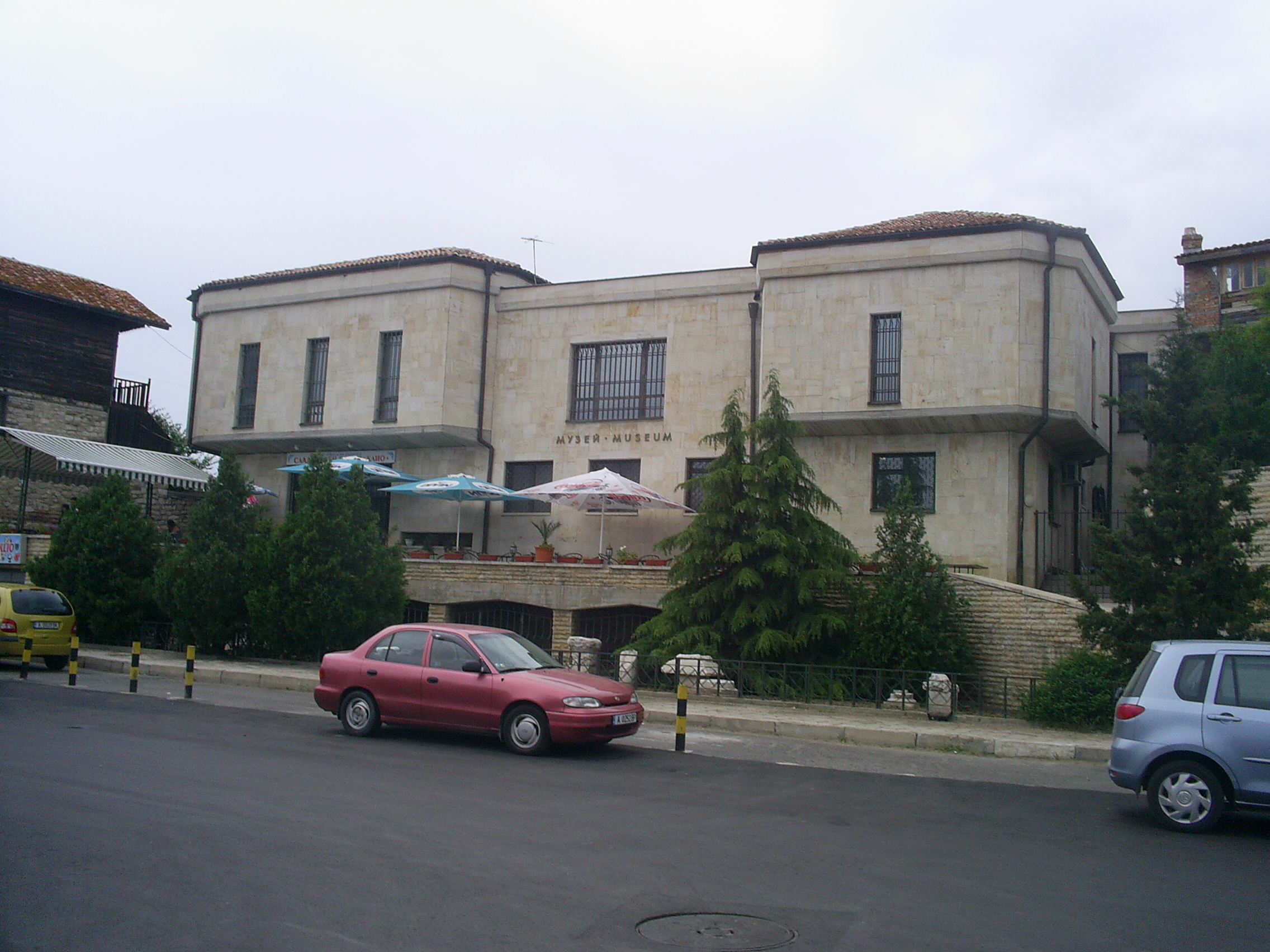 The historical museum of Nessebur